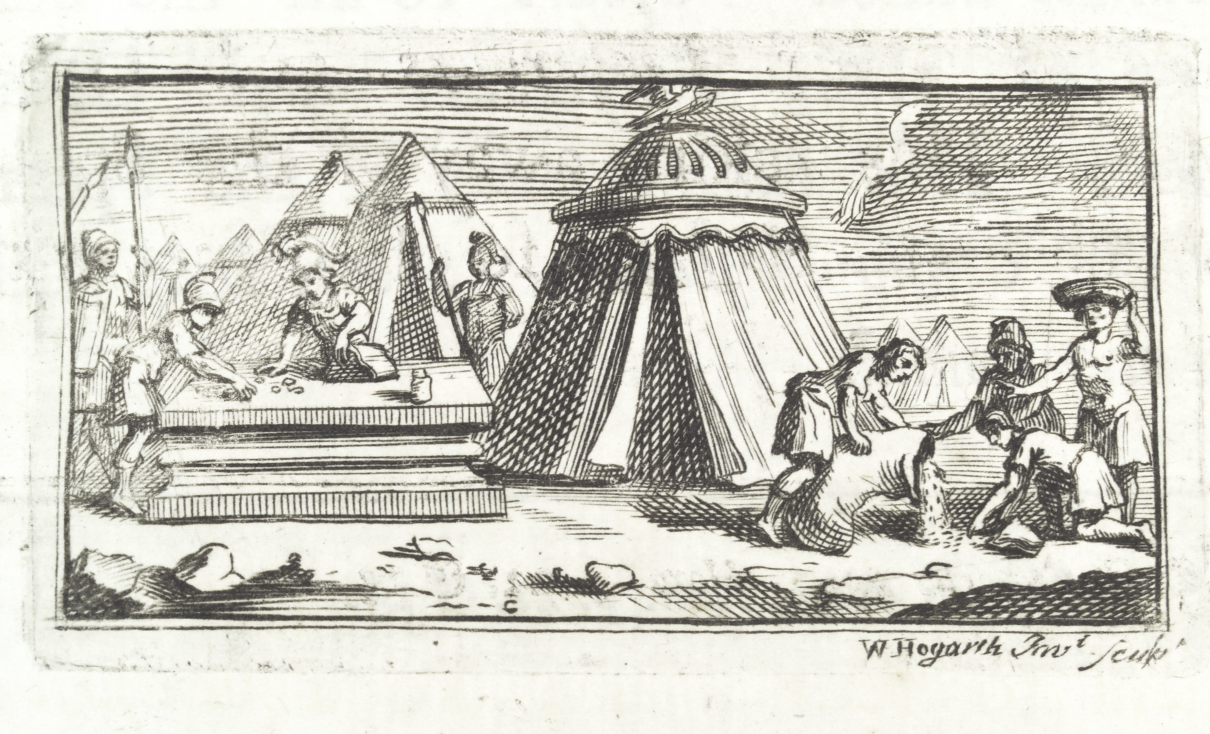 Soldiers, Infantry, being paid their wages by the Roman government, while the Cavalry are seen fending for themselves Rare Books Keywords: Military History; William Hogarth; Army